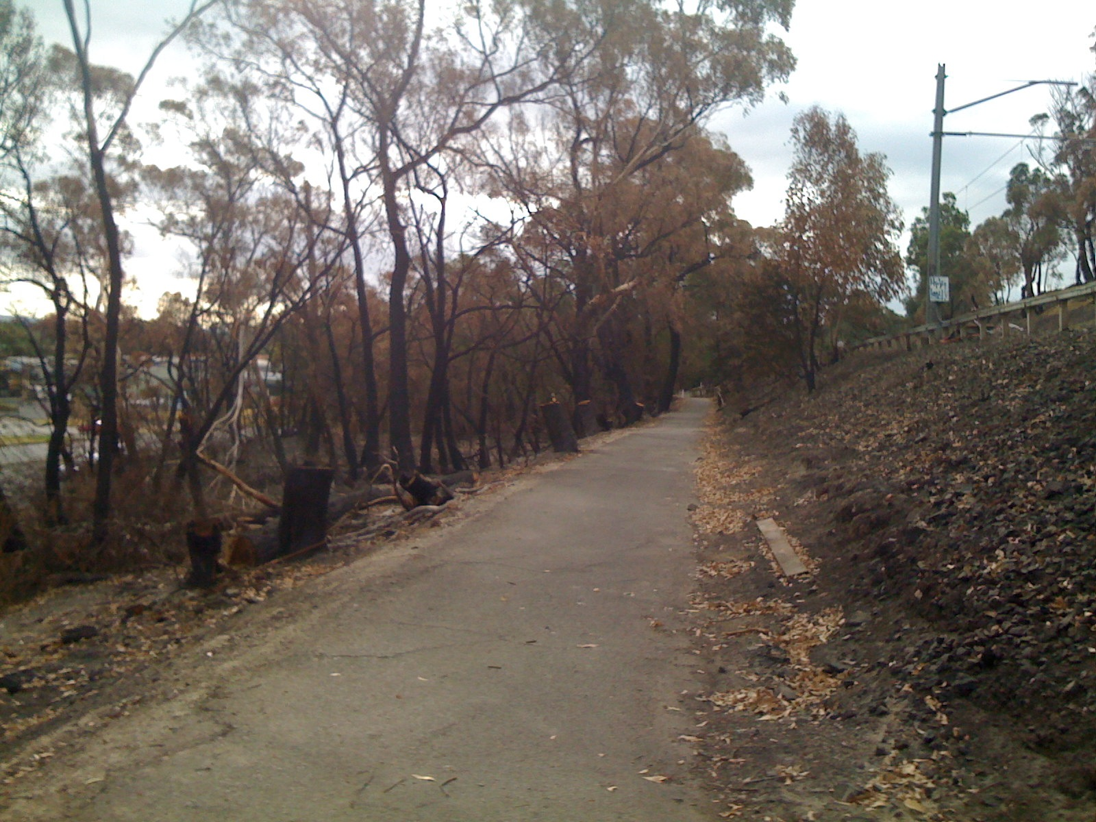 Bushfire damage along the Ringwood - Belgrave Rail Trail next to the Belgrave railway line in Upper Ferntree Gully, Victoria, Australia.